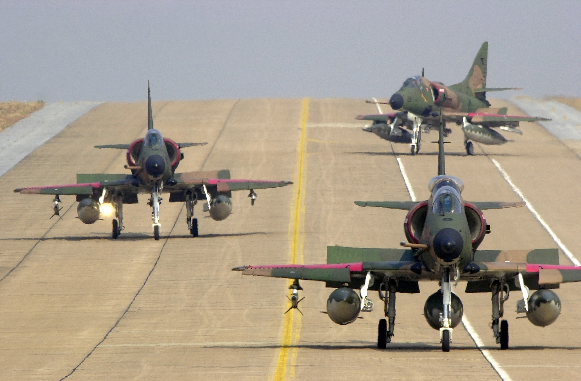 From Republic of Singapore Air Force, One TA-4SU leading Two A-4SU Super Skyhawks taxi on the flight line at Korat AB, Thailand, during Exercise Cope Tiger '02. Cope Tiger is an annual, multinational exercise in the Asia-Pacific region which promotes closer relations and enables air force units in the region to sharpen air combat skills and practice interoperability with US Forces. VIRIN: 020118-F-5872L-013